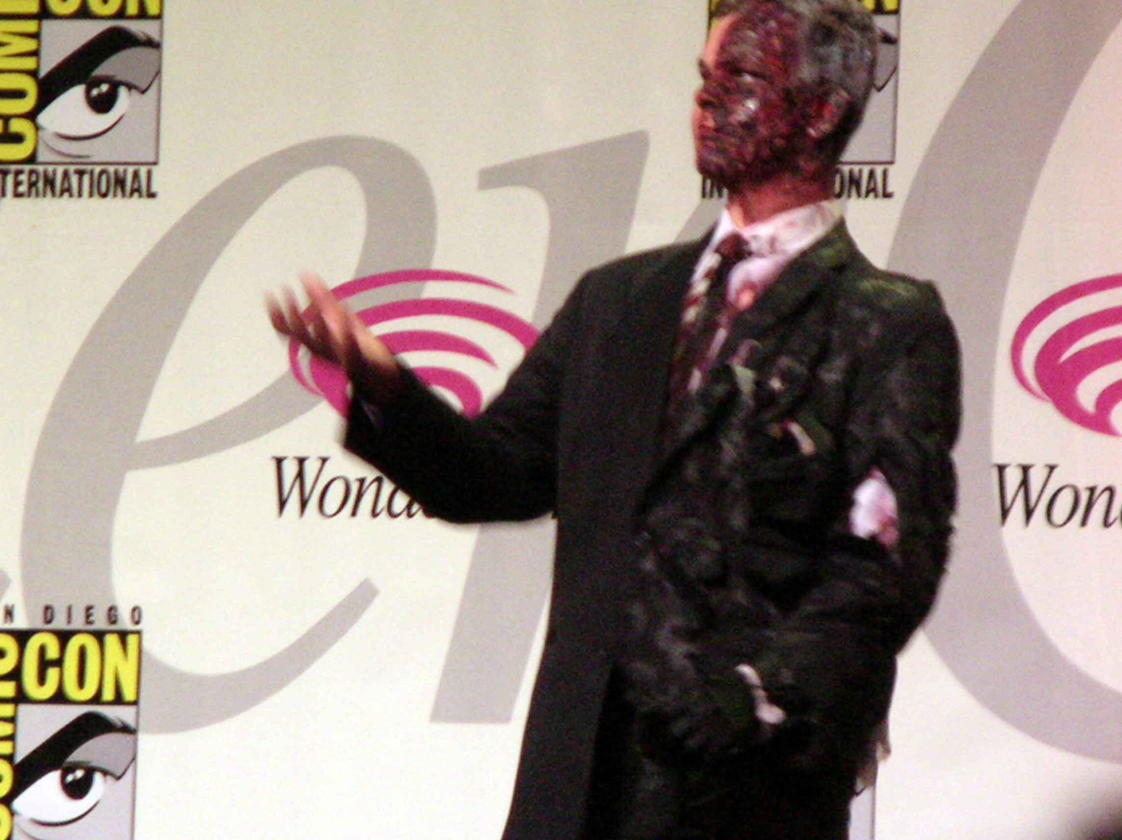 A cosplayer portraying Two-Face from Batman at the WonderCon 2010 Masquerade.